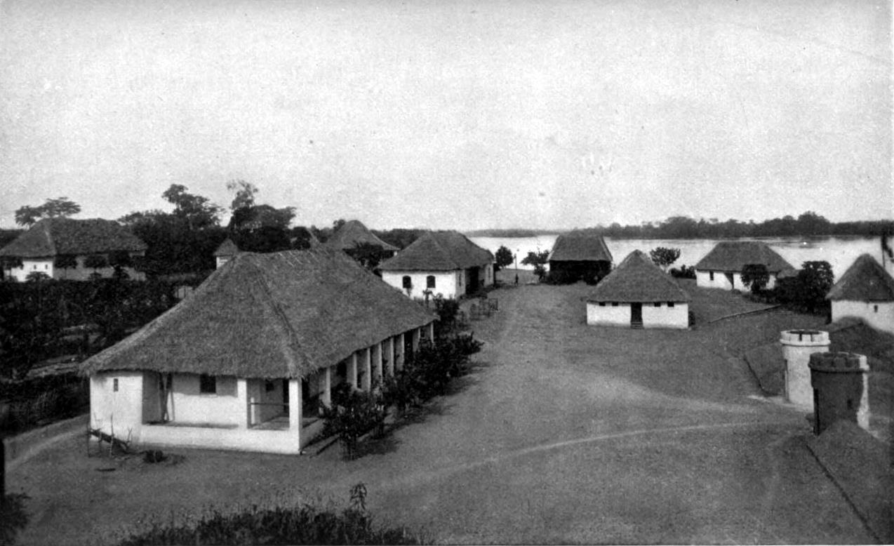 Bird’s-eye View of the Station at Basoko, 1893 - p. 222